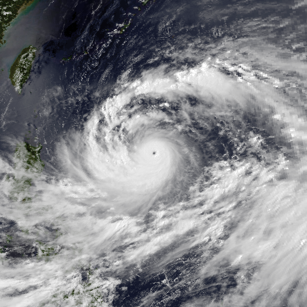 Typhoon Thelma on July 11, 1987